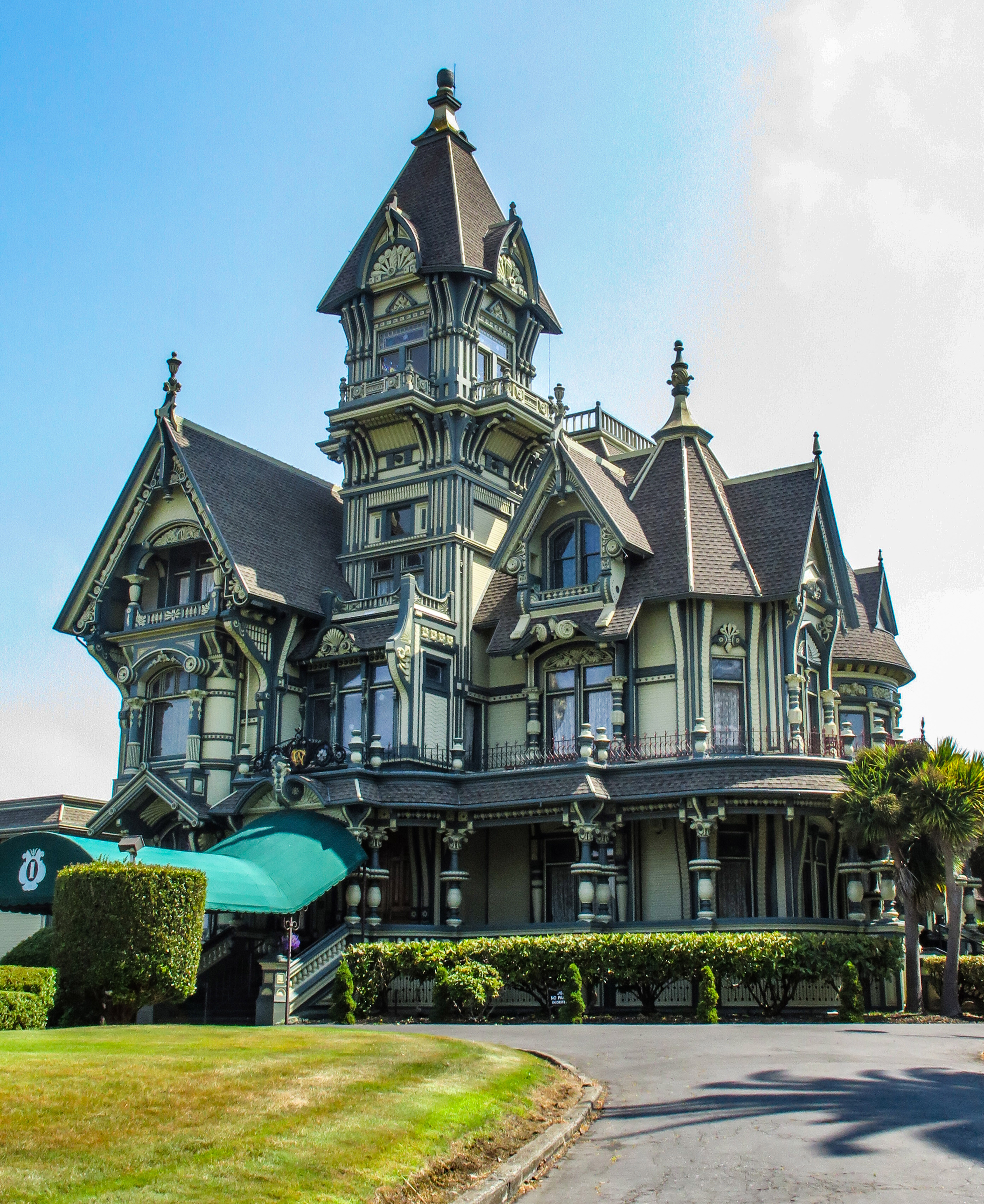 Carson Mansion in the Eureka, California Historic District